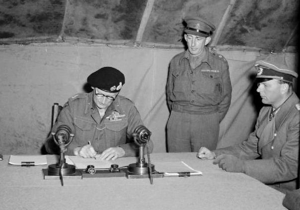 The British Army in North-west Europe 1944-45 Field Marshal Montgomery adds his signature to the document of surrender signed by the German delegation at 21st Army Group HQ at Luneburg Heath, 4 May 1945.